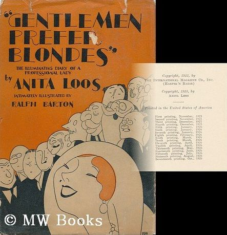 Cover of book Gentlemen Prefer Blondes; The Illuminating Diary of a Professional Lady, Intimately Illustrated, 1926 Illustrator Ralph Barton (1891-1931)